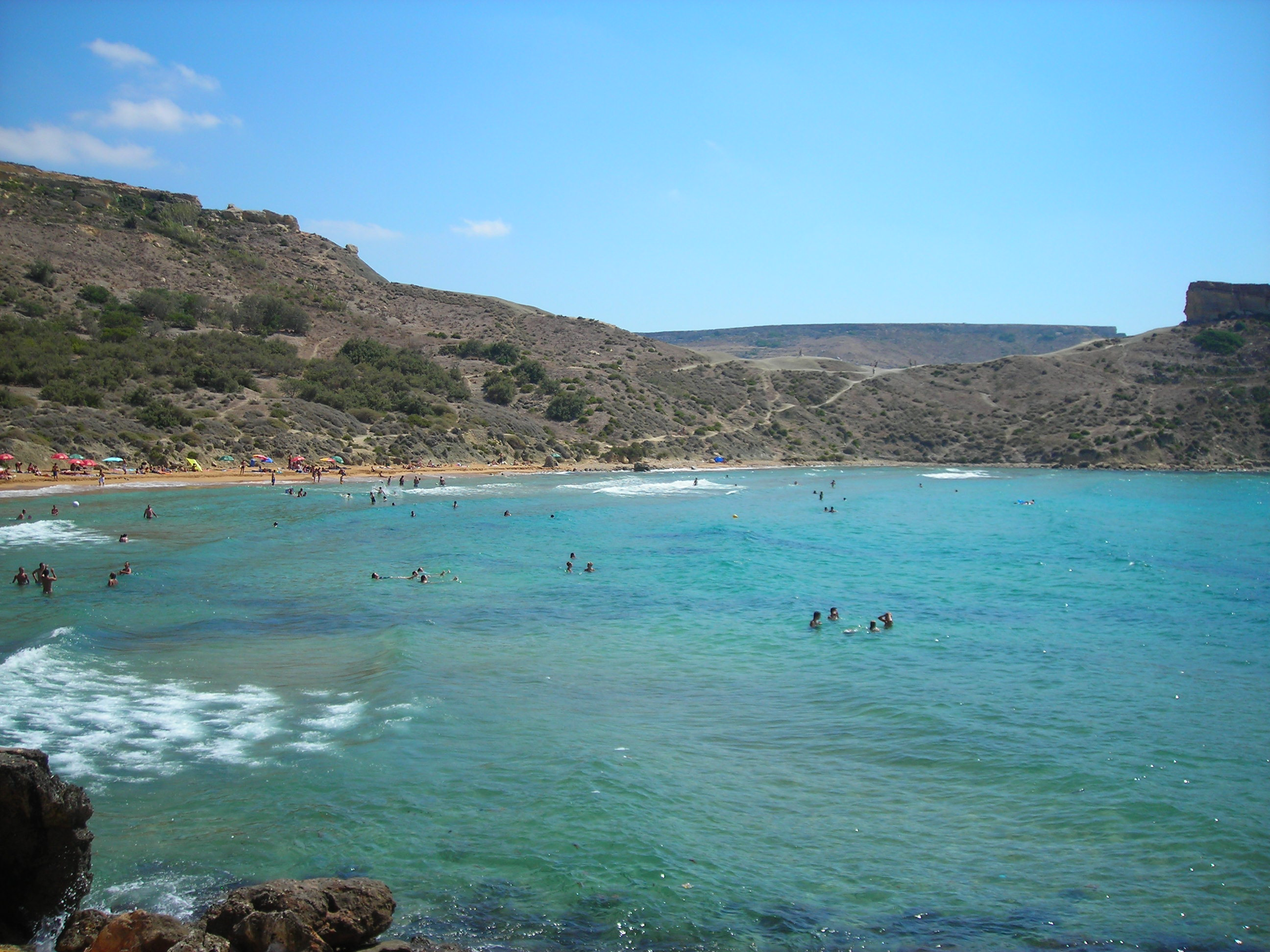 Għajn Tuffieħa Bay, Malta